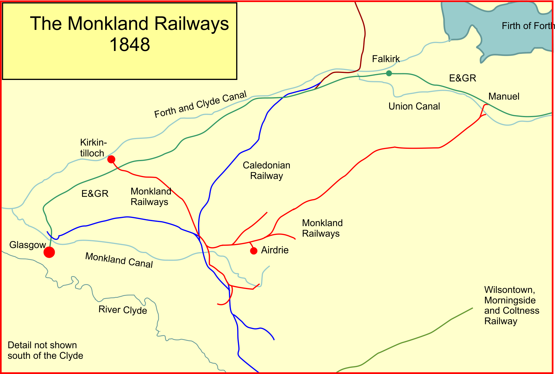 Map of the Monkland Railways (Central Scotland) and surrounding lines in 1848